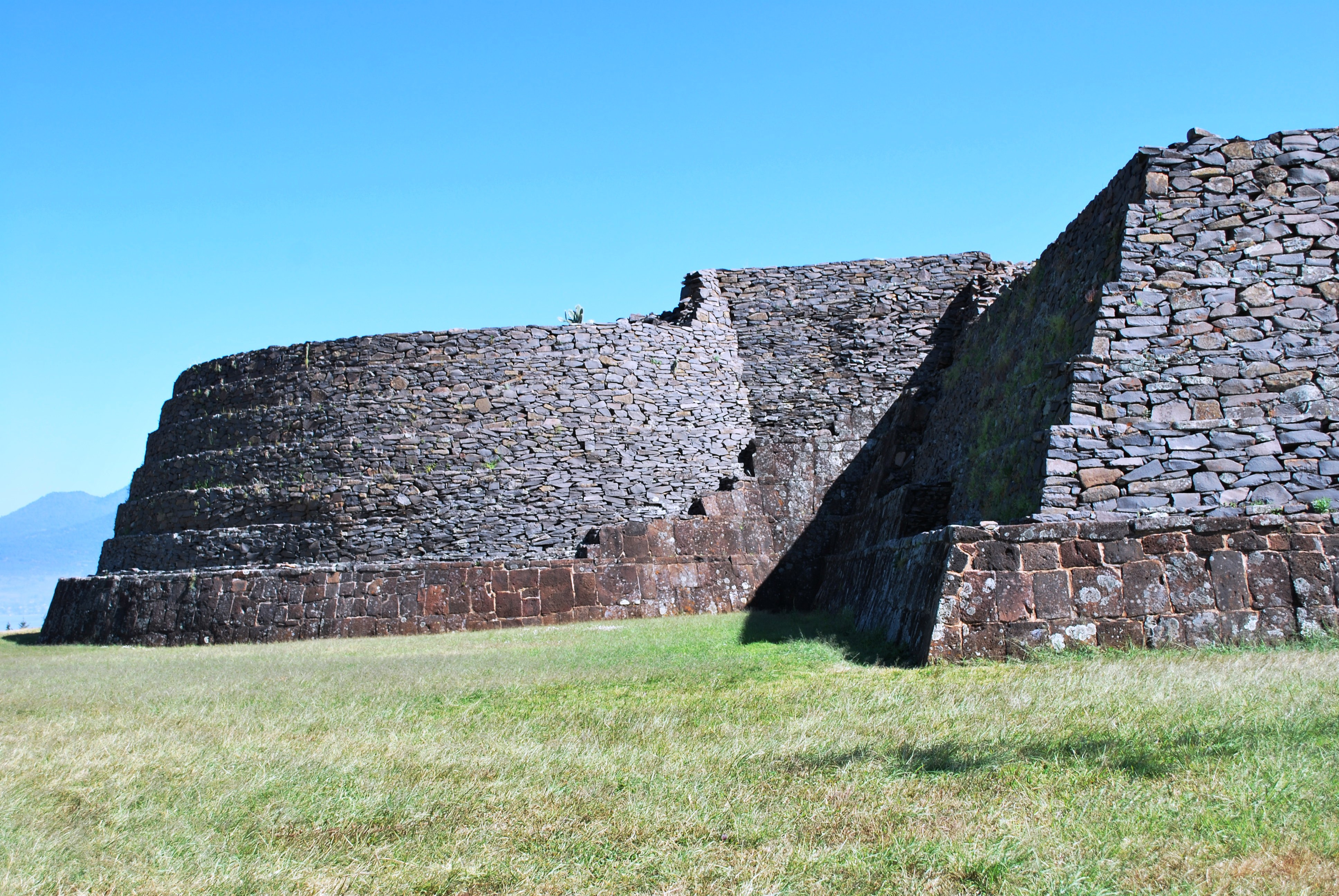 Fifth or southernmost yacata pyramid as seen from the front in Tzintzuntzan